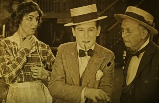 Left to right: Martha Mattox, William V. Mong, and Bert Woodruff in The Delicious Little Devil (1919) - cropped screenshot